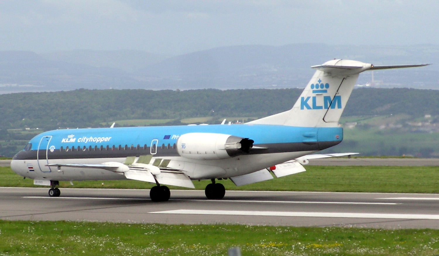 KLM Fokker 70 (PH-KZE) at Bristol International Airport, Bristol, England. Taken by Adrian Pingstone in August 2004 and released to the public domain.